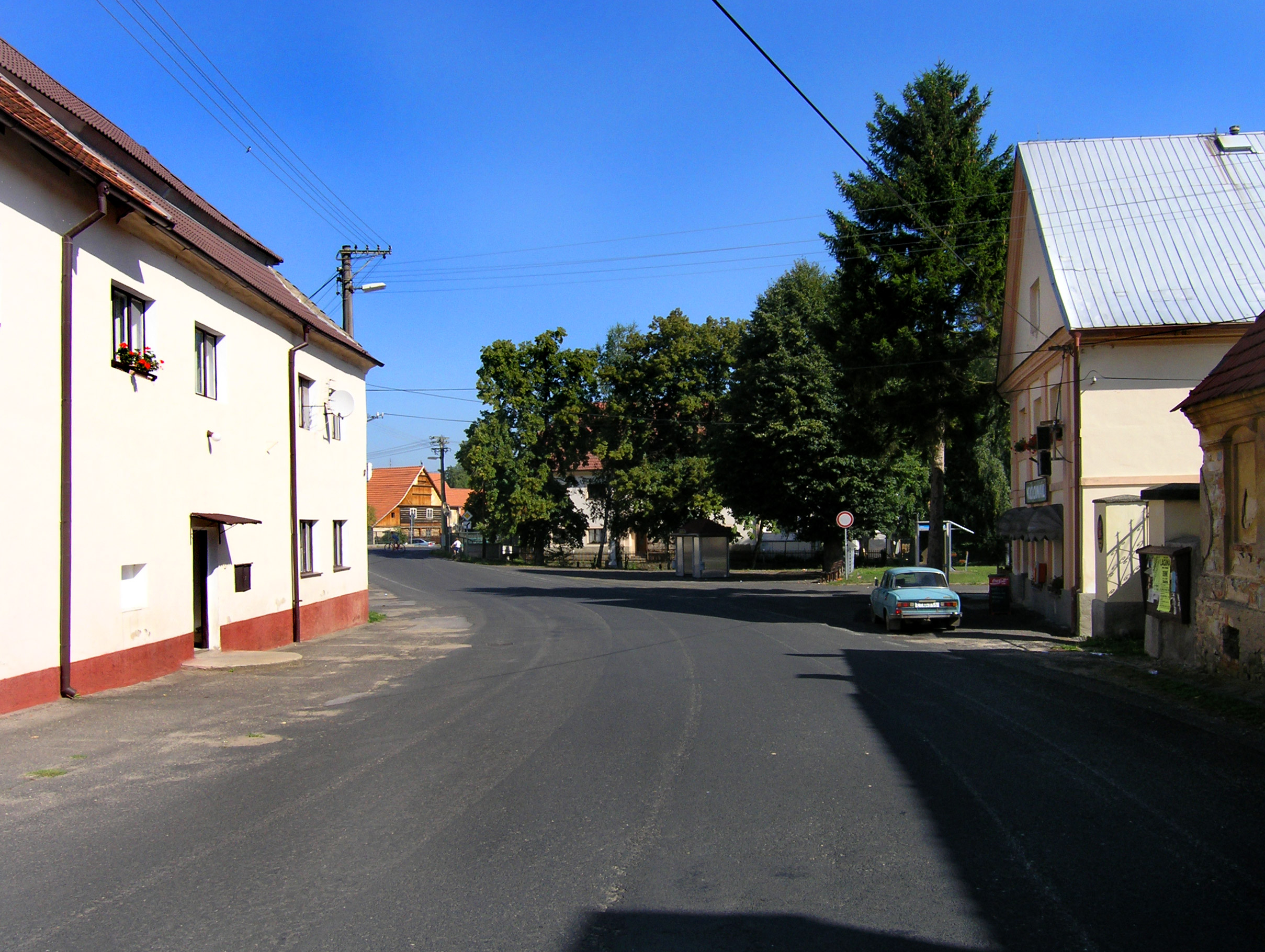 Common in Býčkovice, Czech Republic